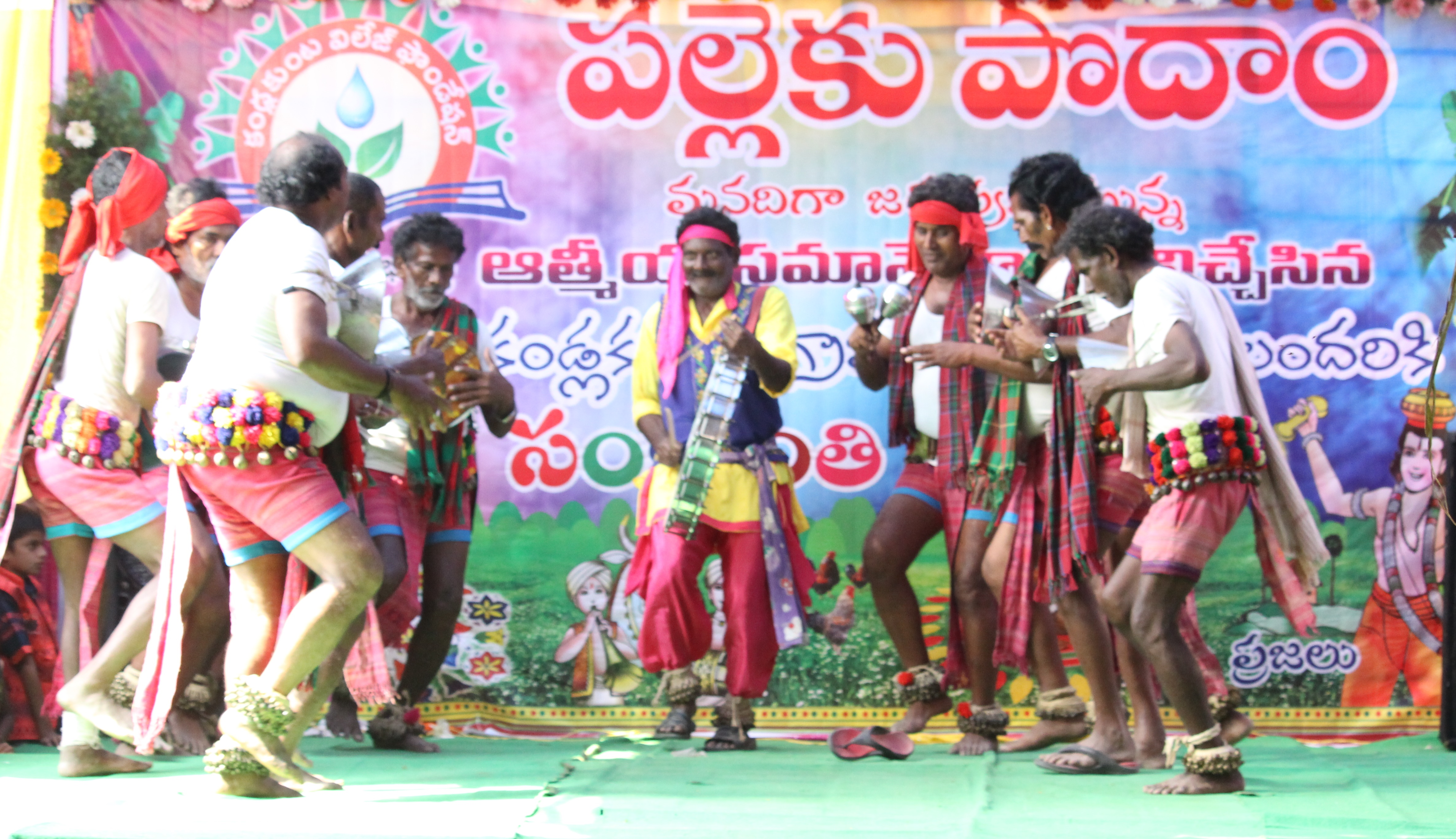 “పల్లెకు పోదాం రా..” ఆత్మీయ సమ్మేళన కార్యక్రమం